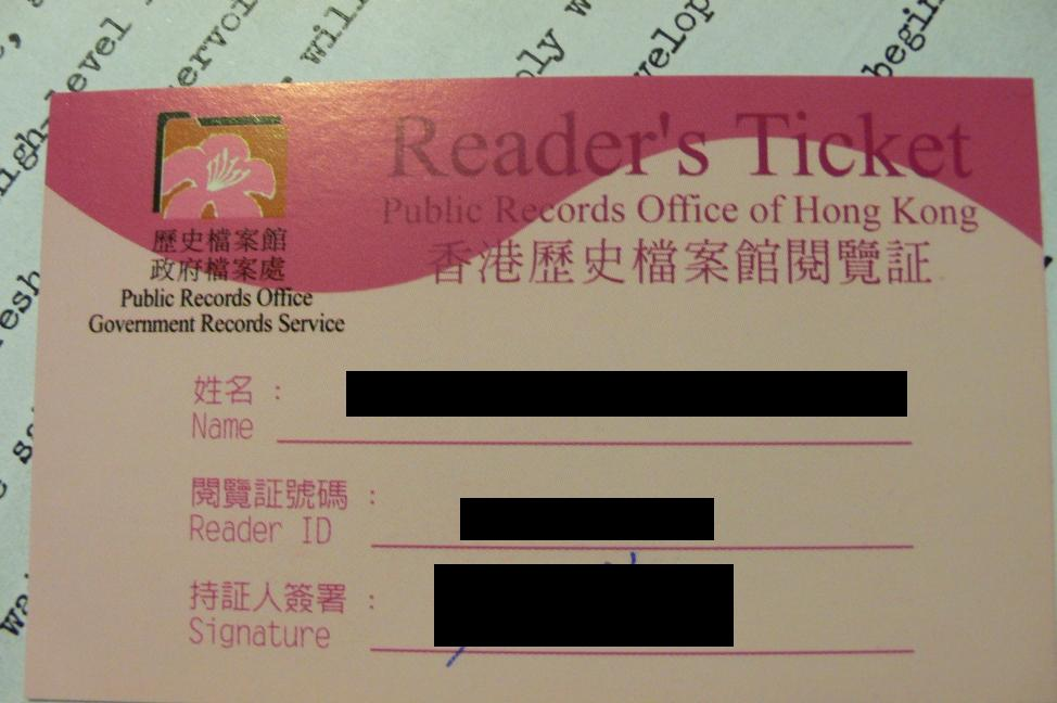 The Reader Ticket of Public Records Office of Hong Kong